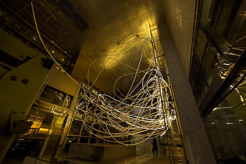 Breathless Maiden Lane by Grimanesa Amoros